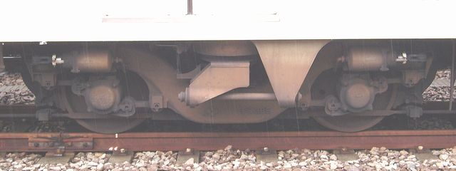 Bogie of Odakyu Electric Railway type 9000. 小田急9000形の台車（付随台車FS385） 2006.05.13 Photo by Cassiopeia_sweet.